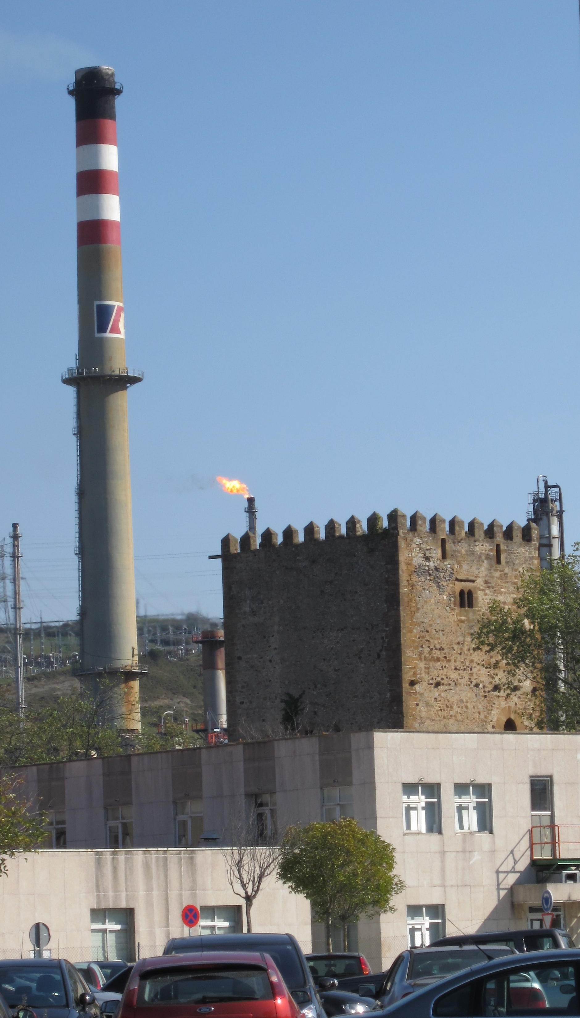 Premises of Petronor and Castle of Muñatones / Muñatoiz, Muskiz, Biscay.